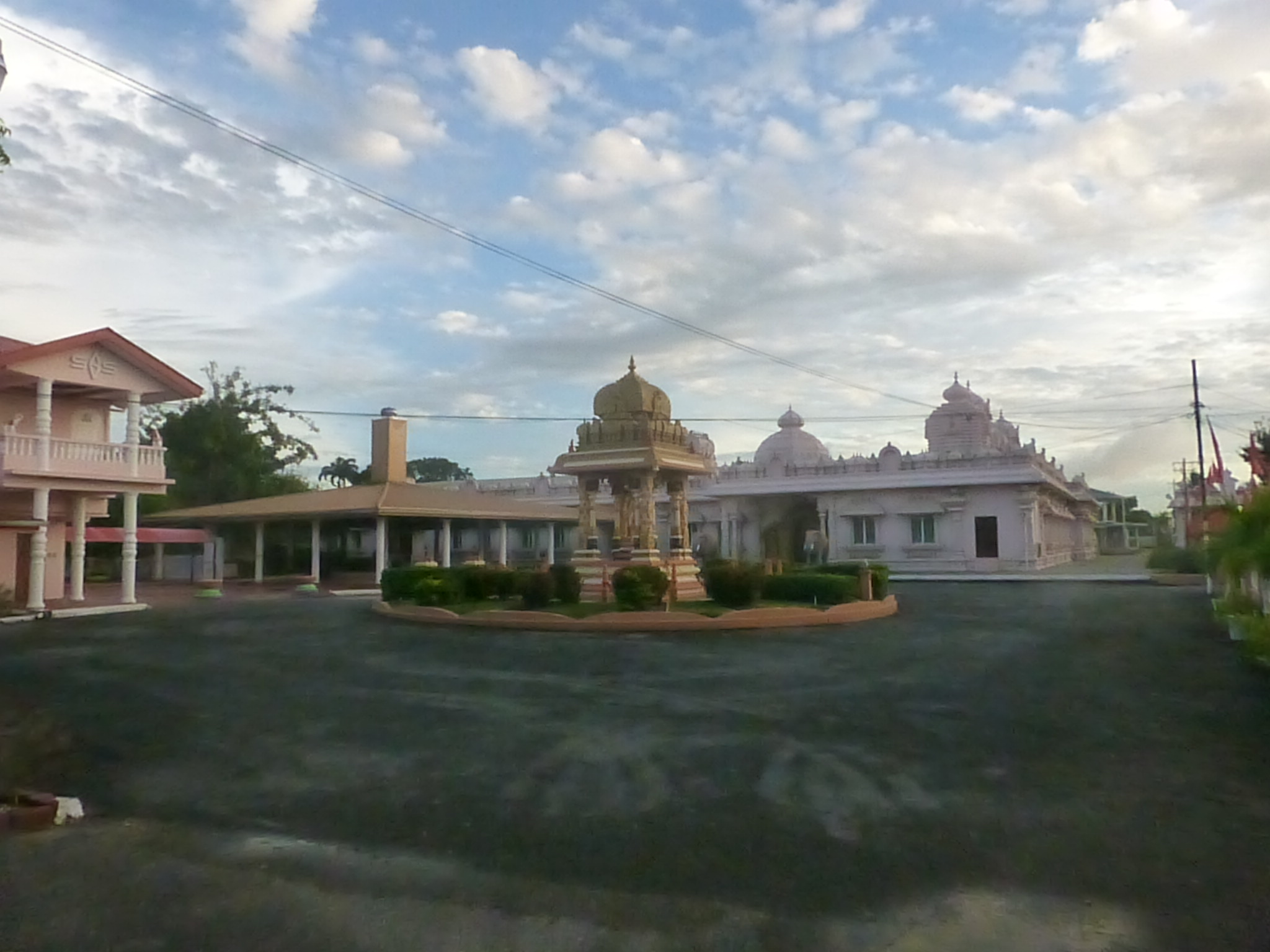 Dattatreya Mandir, Carapichaima, Couva-Tabaquite-Talparo, Trinidad and Tobago